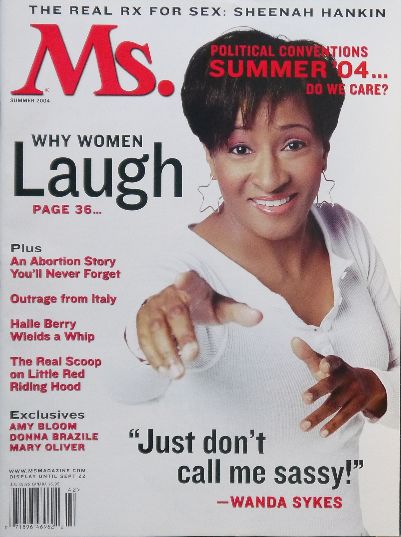 Ms. magazine, Summer 2004 with Wanda Sykes